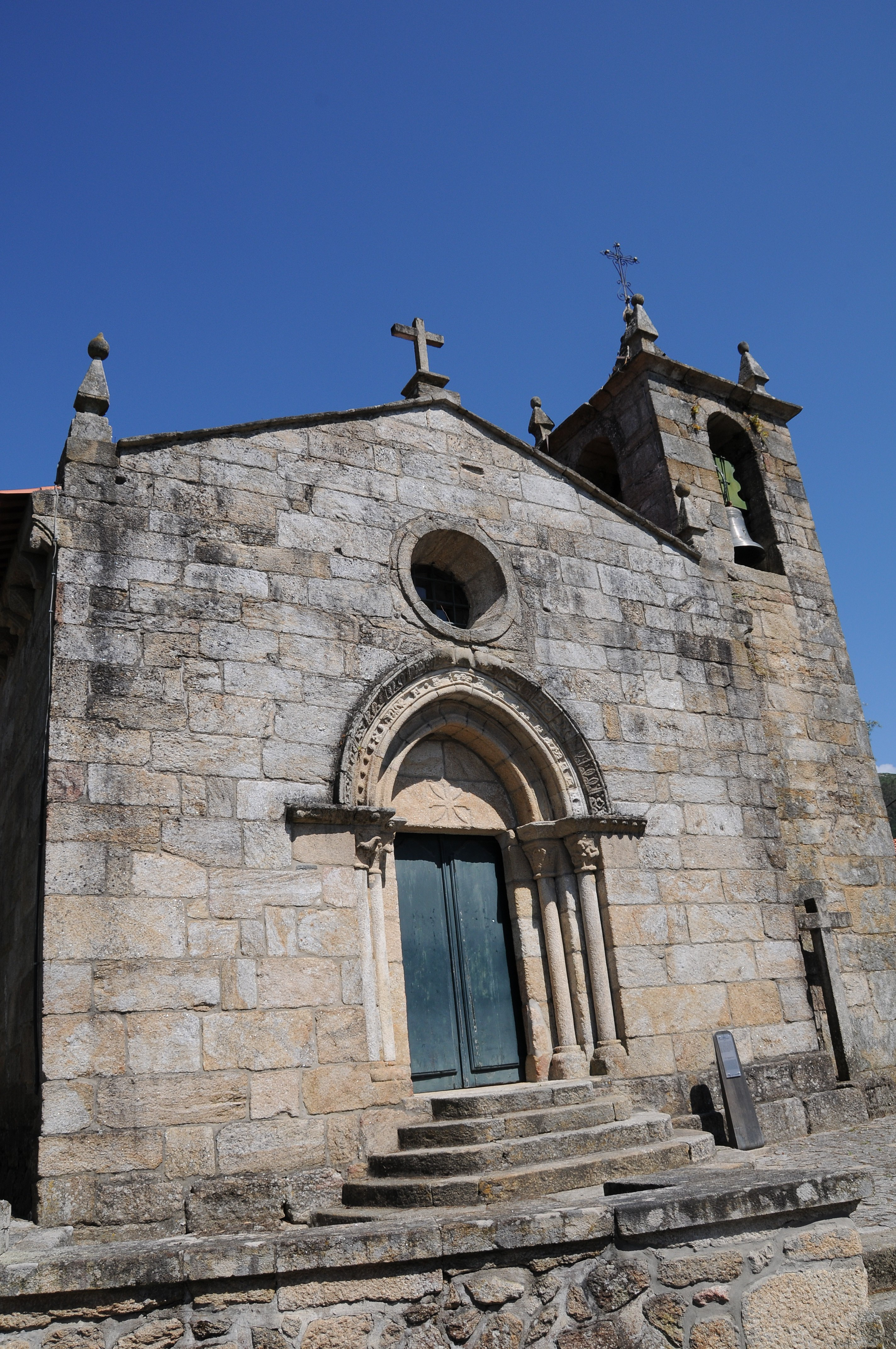 Mary Magdalene Church in Chaviães, Melgaço, Portugal.